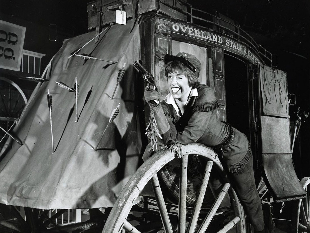 Photo of Carol Burnett as Calamity Jane from a television special of the same name based on the film and musical.